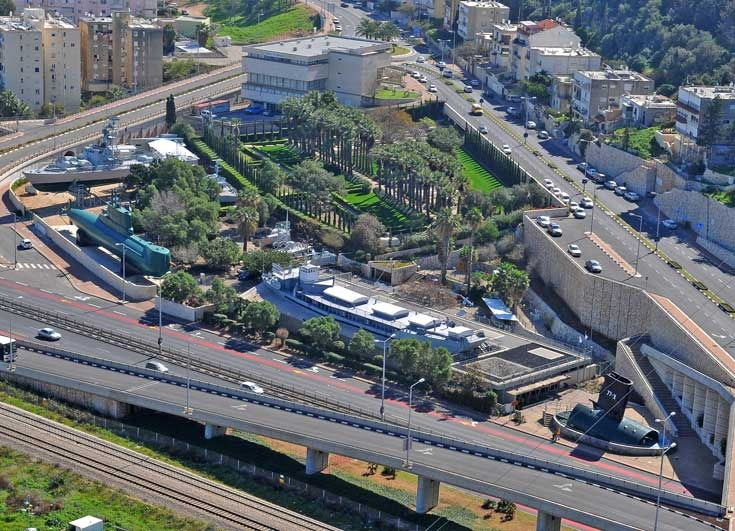 Israel Defense Forces